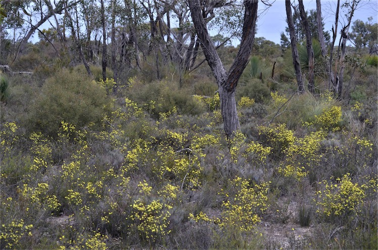 Phebalium stenophyllum along the Nhill-Harrow Road in Little Desert National Park, Victoria.